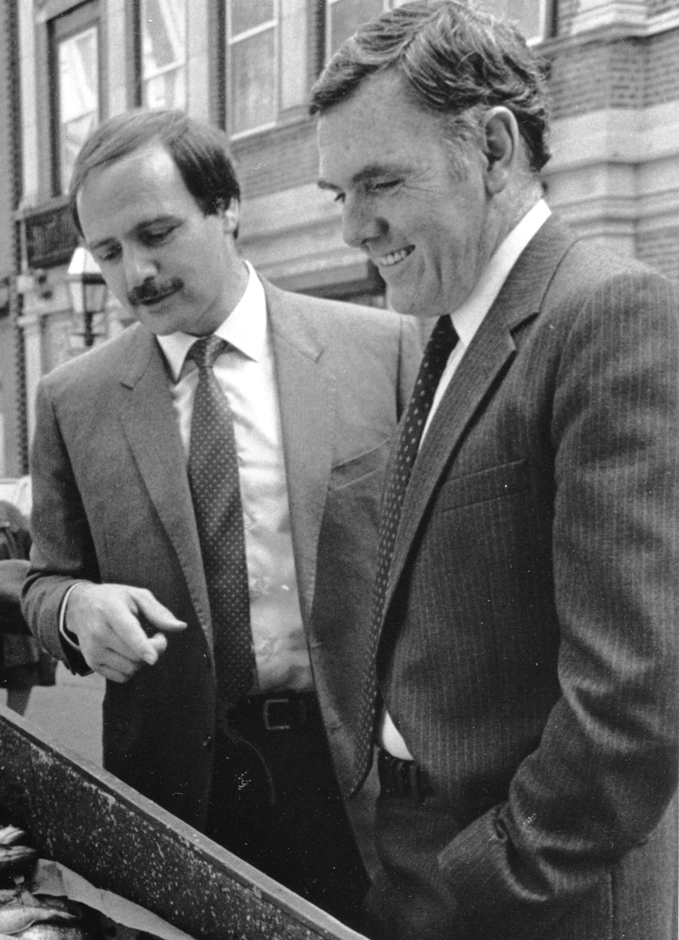 Title: Mayor Raymond L. Flynn and Rep. Salvatore "Sal" DiMasi Creator: Mayor's Office - City Photographer Date: circa 1984-1987 Source: Mayor Raymond L. Flynn records, Collection #0246.001 File name: RF_0536 Rights: Copyright City of Boston Citation: Mayor Raymond L. Flynn records, Collection #0246.001, City of Boston Archives, Boston